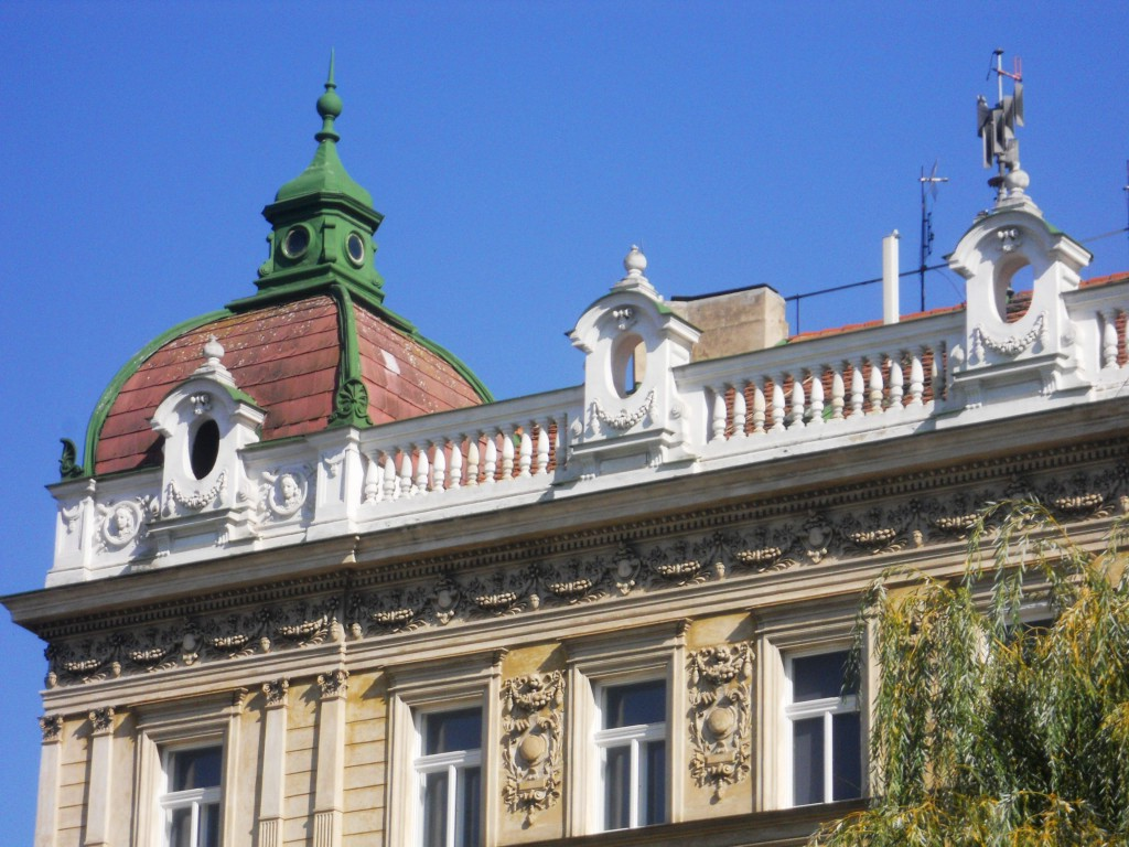 Attic, 19th century (Praha, Klárov)